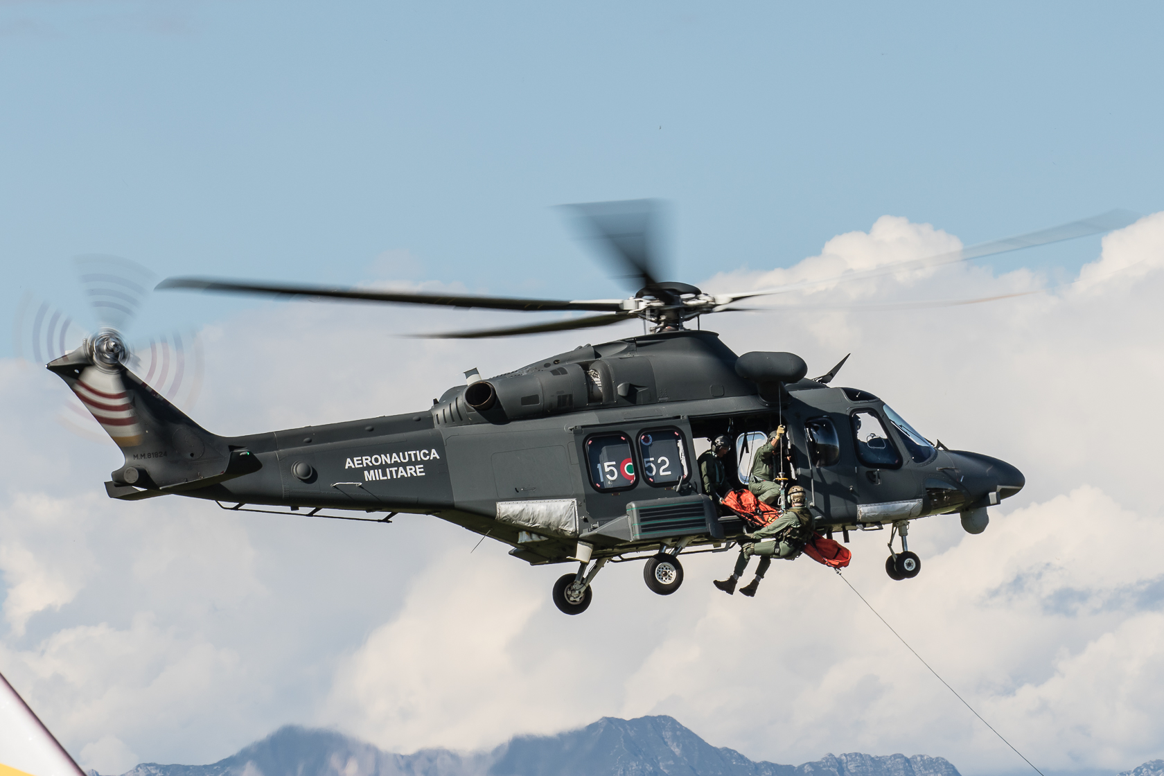 AgustaWestland HH-139A (AW-139M) MM81824 / 15-52 (cn 31528) SAR demonstration